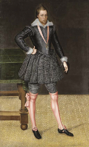 Portrait of Sir Charles Stanhope (1595-1675) wearing the badge of a Knight of the Bath (knighted on 4 June 1610 on the creation of Prince Henry as Prince of Wales). oil on canvas